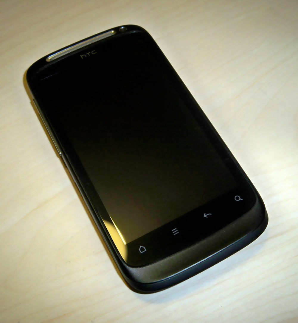 A photo of the HTC Desire S.